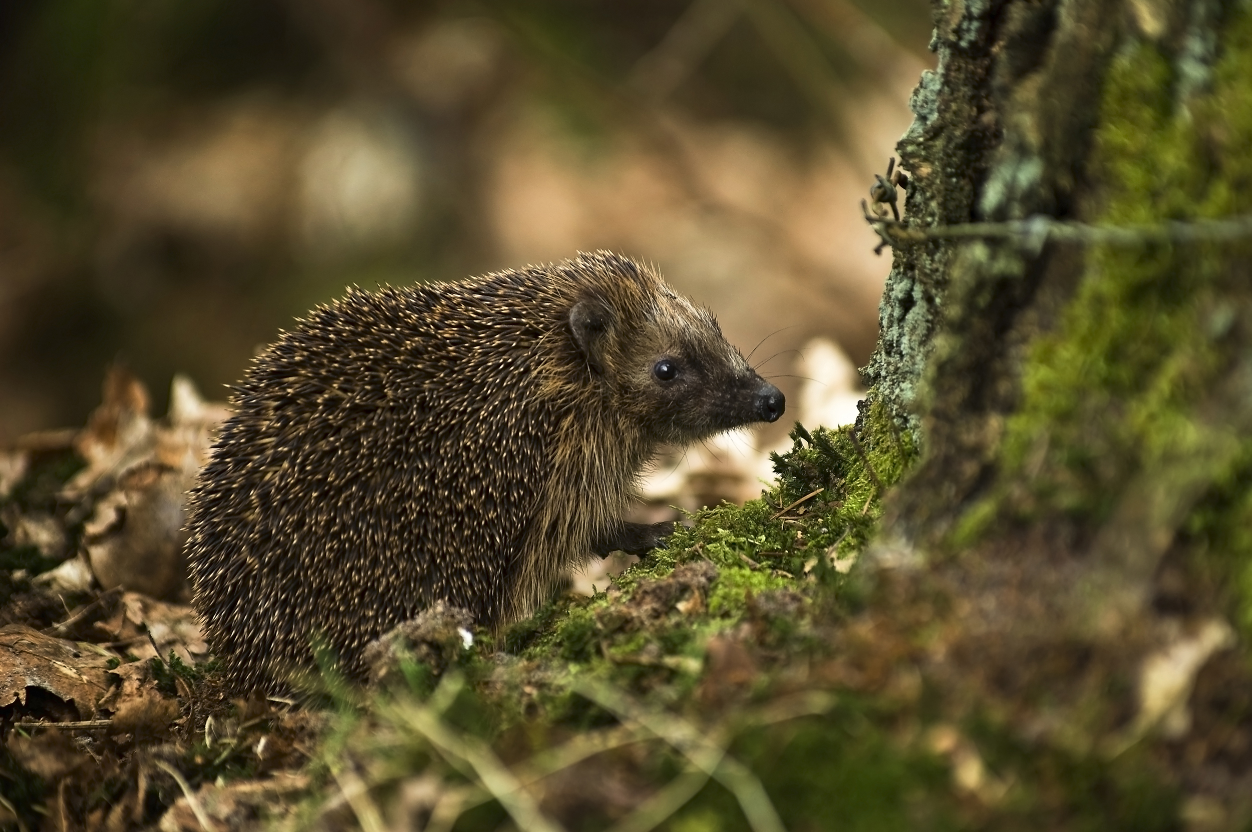 West European Hedgehog (Erinaceus europaeus). photographed in the Emmerdennen(wood), Emmen, Netherlands.